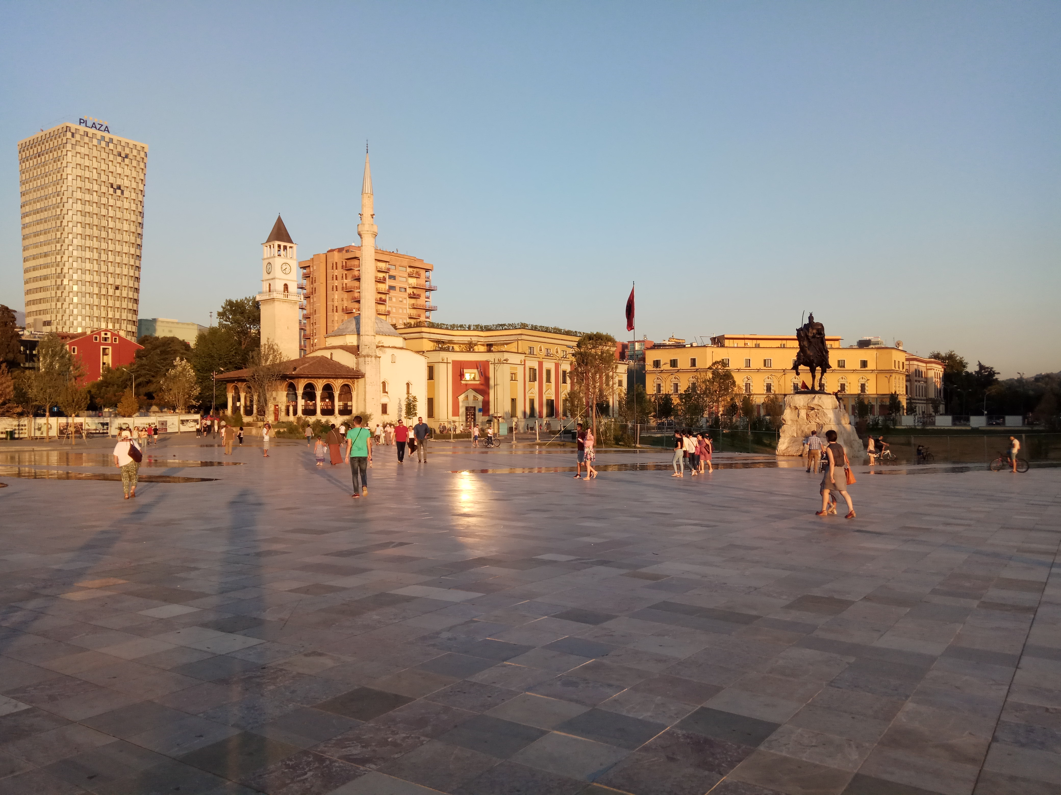 The Skanderbeg square in Tirana after the reconstruction in 2017.